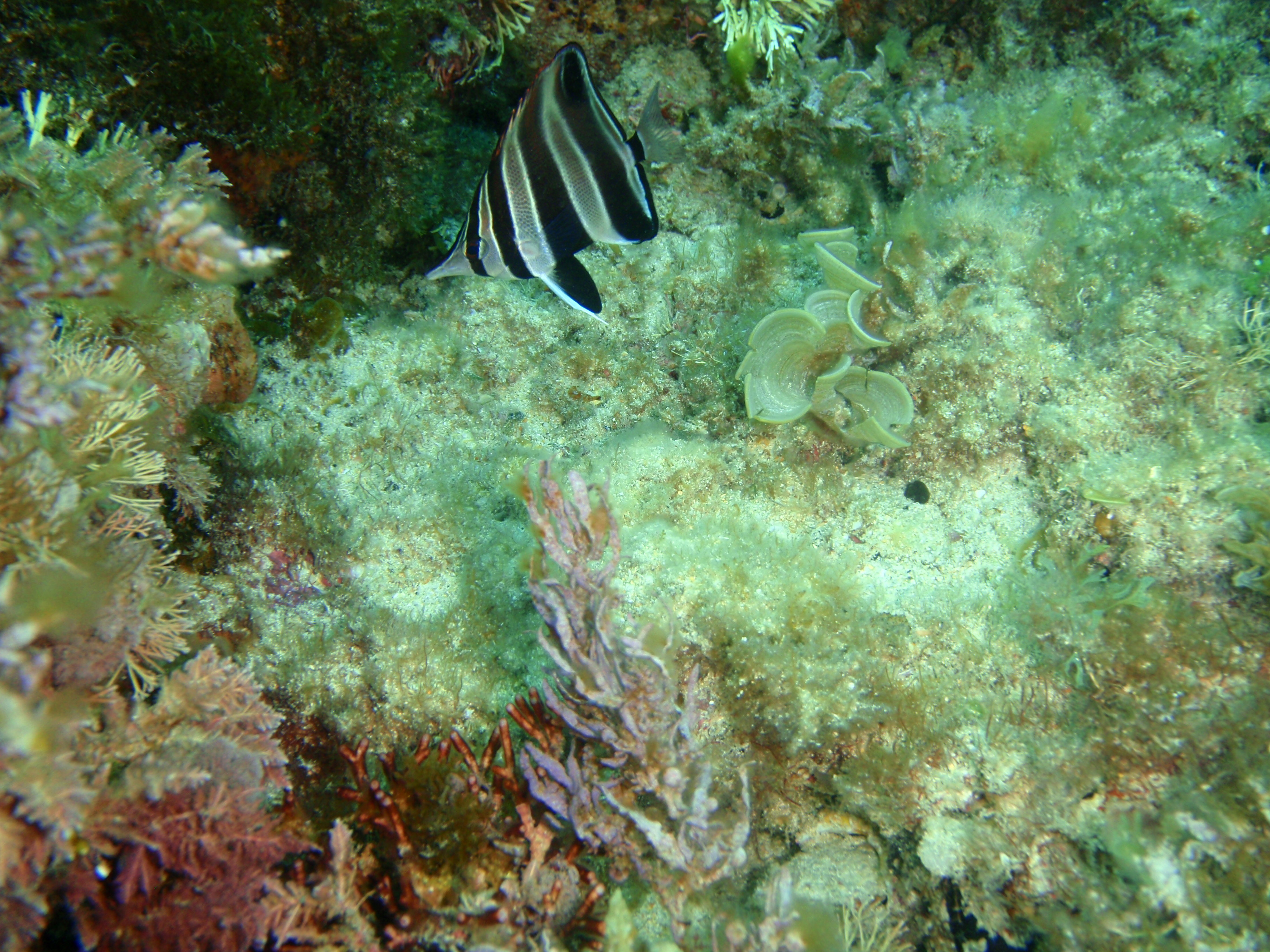 Western talma Chelmonops curiosus at Kingston Reef, Rottnest Island